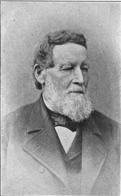 Amory Maynard founder and namesake of Maynard Massachusetts USA